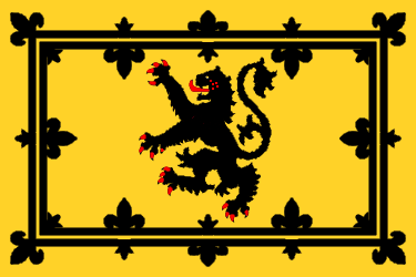 This flag is used by the Clan Buchanan Society International. It pre-dated the Lyon Court grant of arms in 2002.